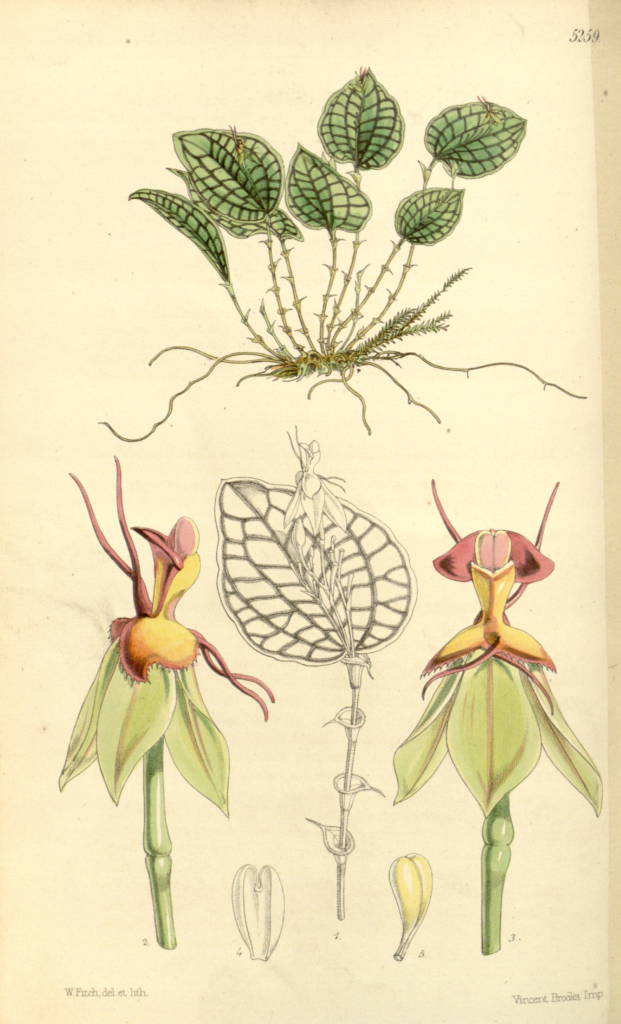 Illustration of Lepanthes calodictyon